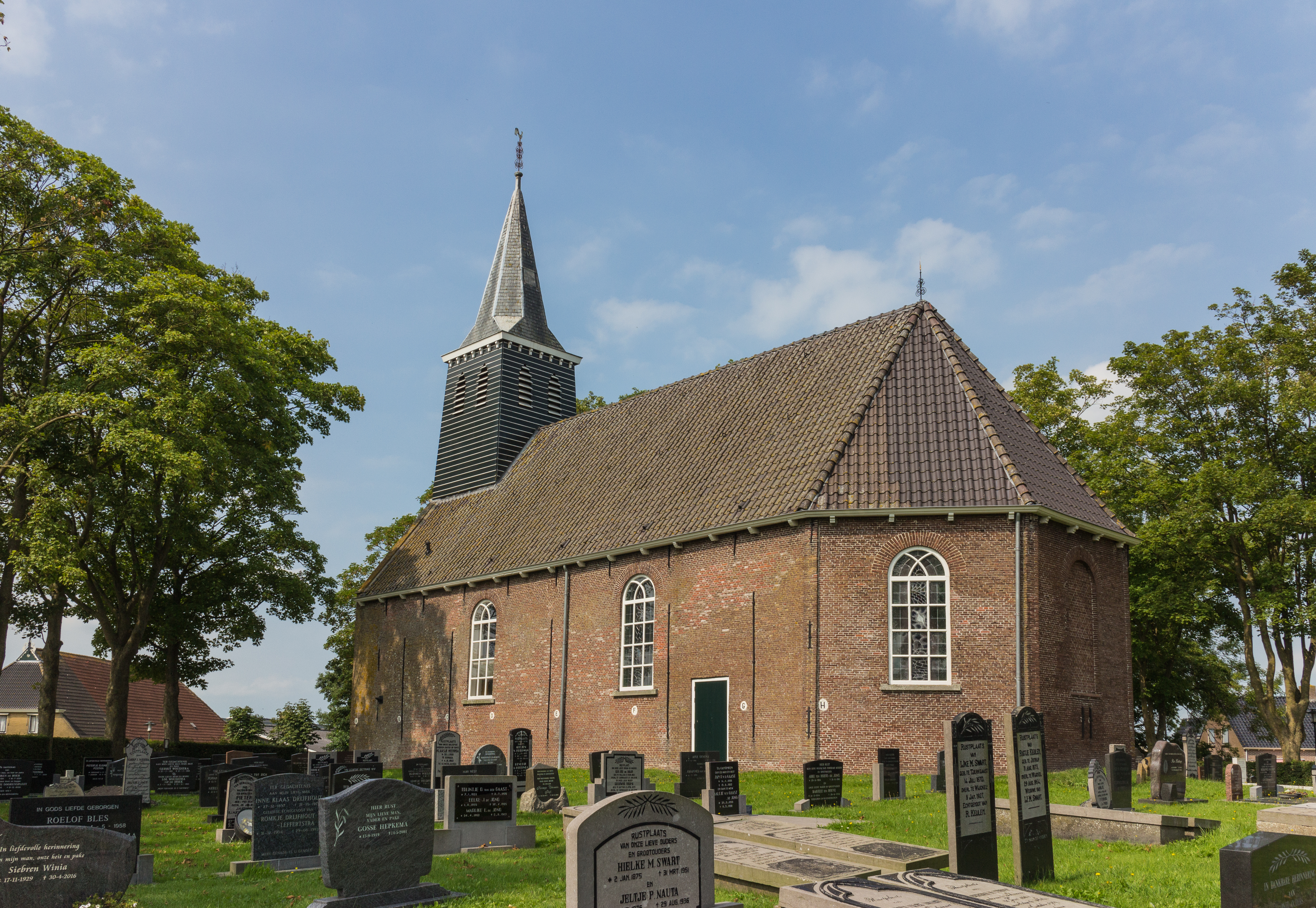 Tjerkgaast. Church of Tjerkgaast Gaestdyk 37 (National Monument).